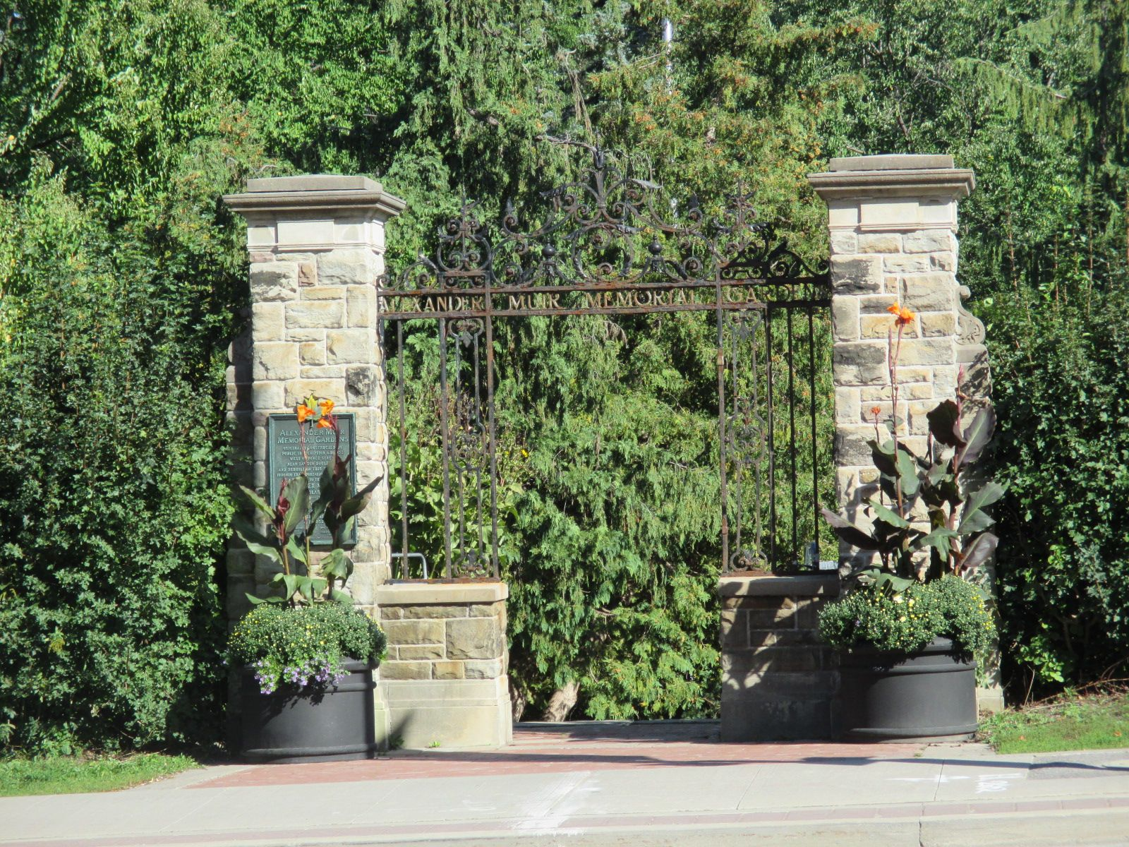 Alexander Muir Memorial Gardens: gate on Yonge Street, Toronto